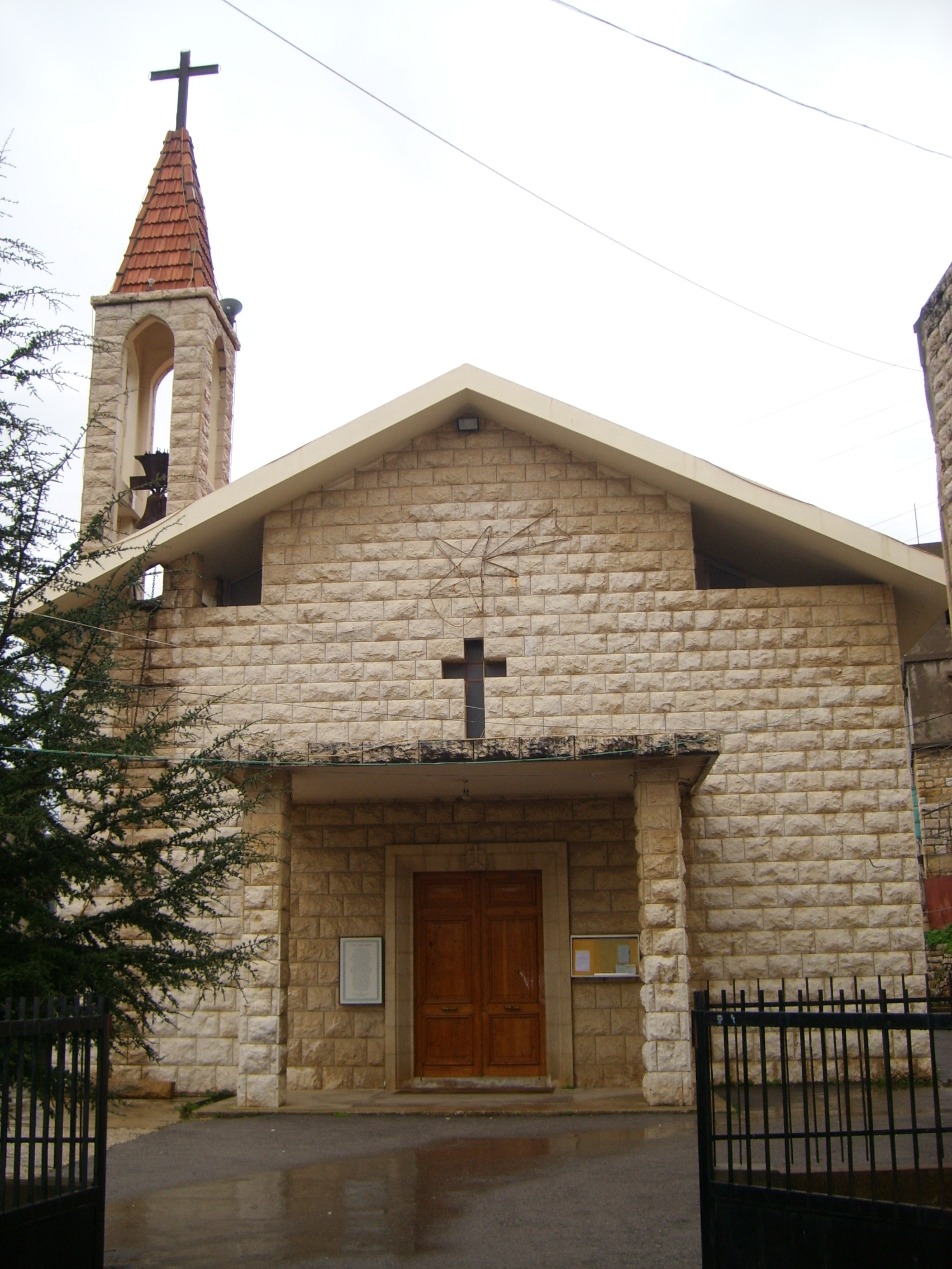 Picture I took myself of the Church St Elias in Bdadoun